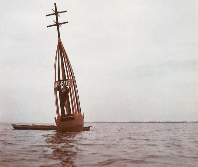 Early taken color picture on Agfacolor Negativ-Film, 1952